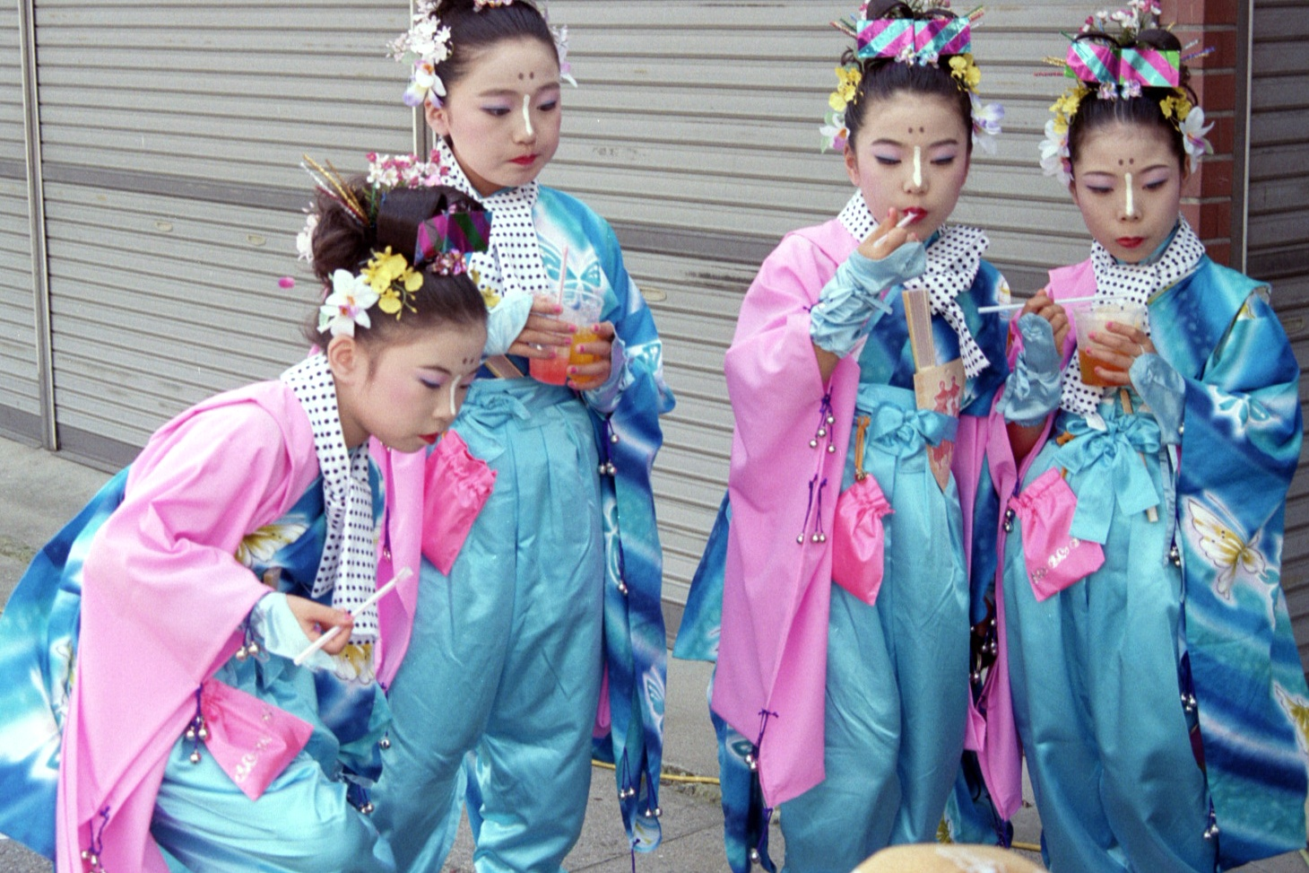 Tekomai(rich cosmetized and florid festival kimono girl)